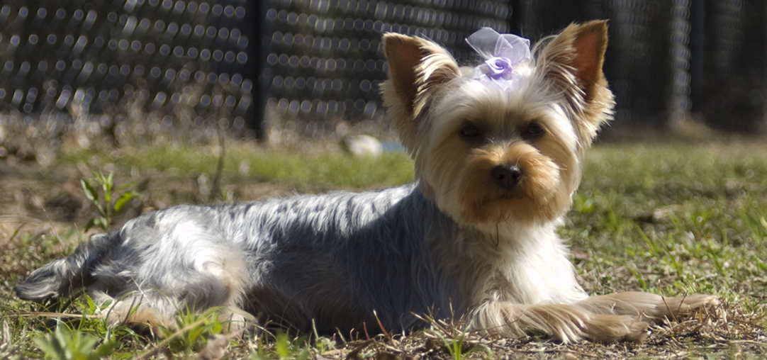 Sophie, my Yorkie, after a day at the groomer. I call this her "Diva" picture.